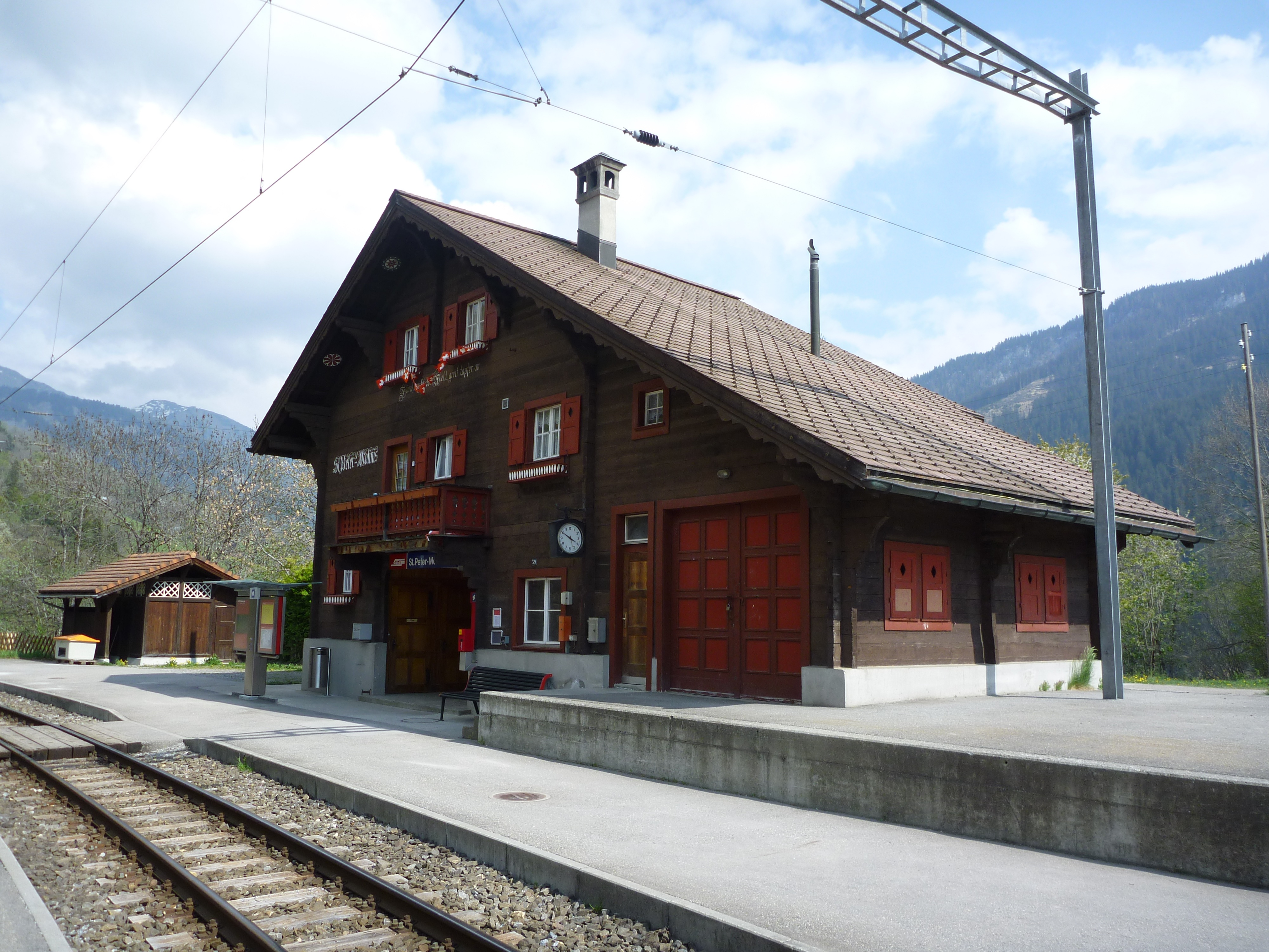 St. Peter-Molinis train station, Chur-Arosa railway